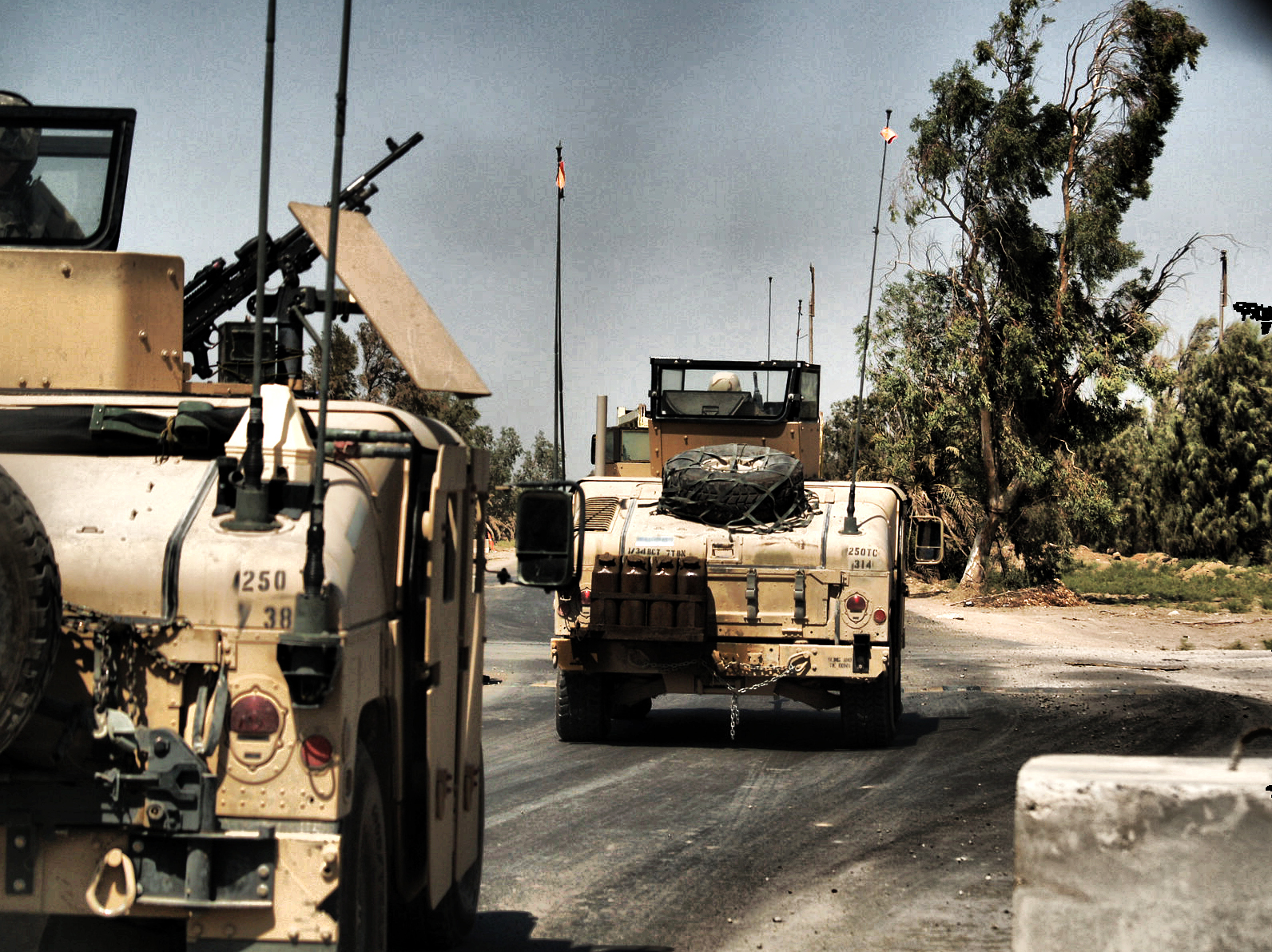 Gun Trucks on a Convoy Logistics Patrol, Southern Iraq